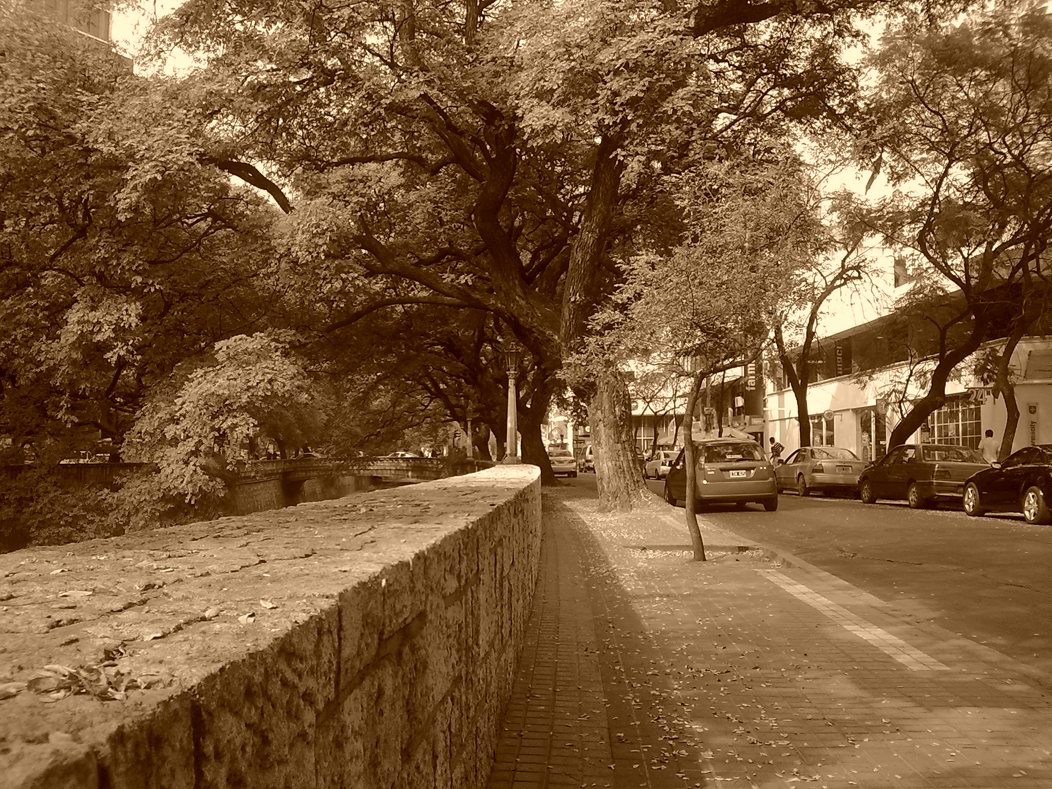 Figueroa Alcorta street and La Cañada glen. Cordoba, Argentina.